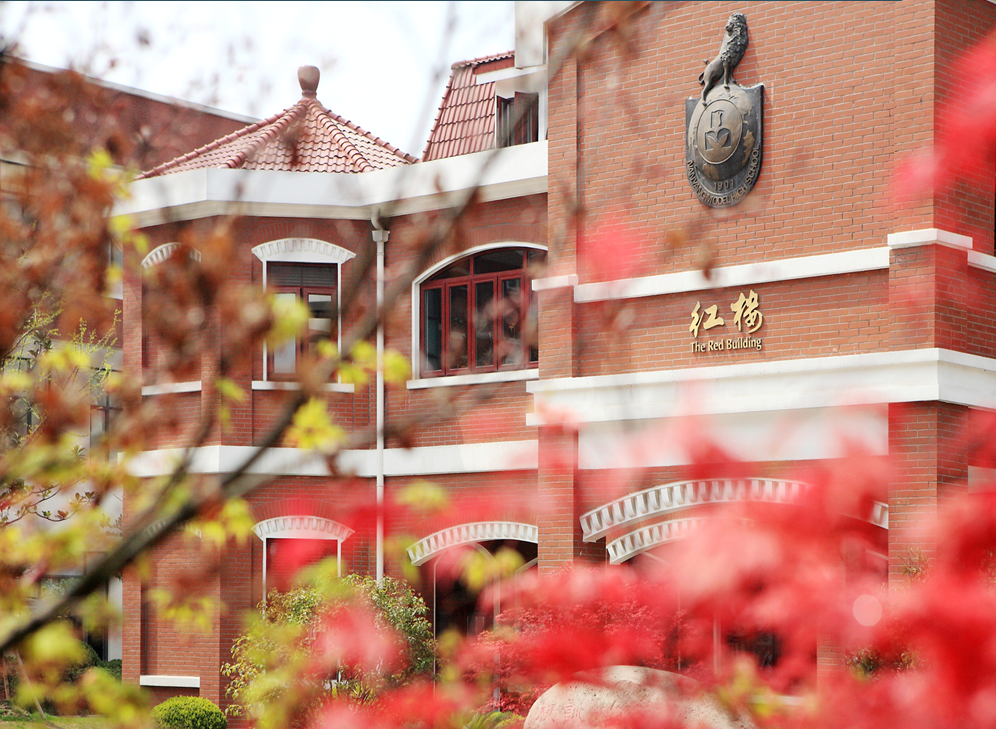 The Red Building in autumn